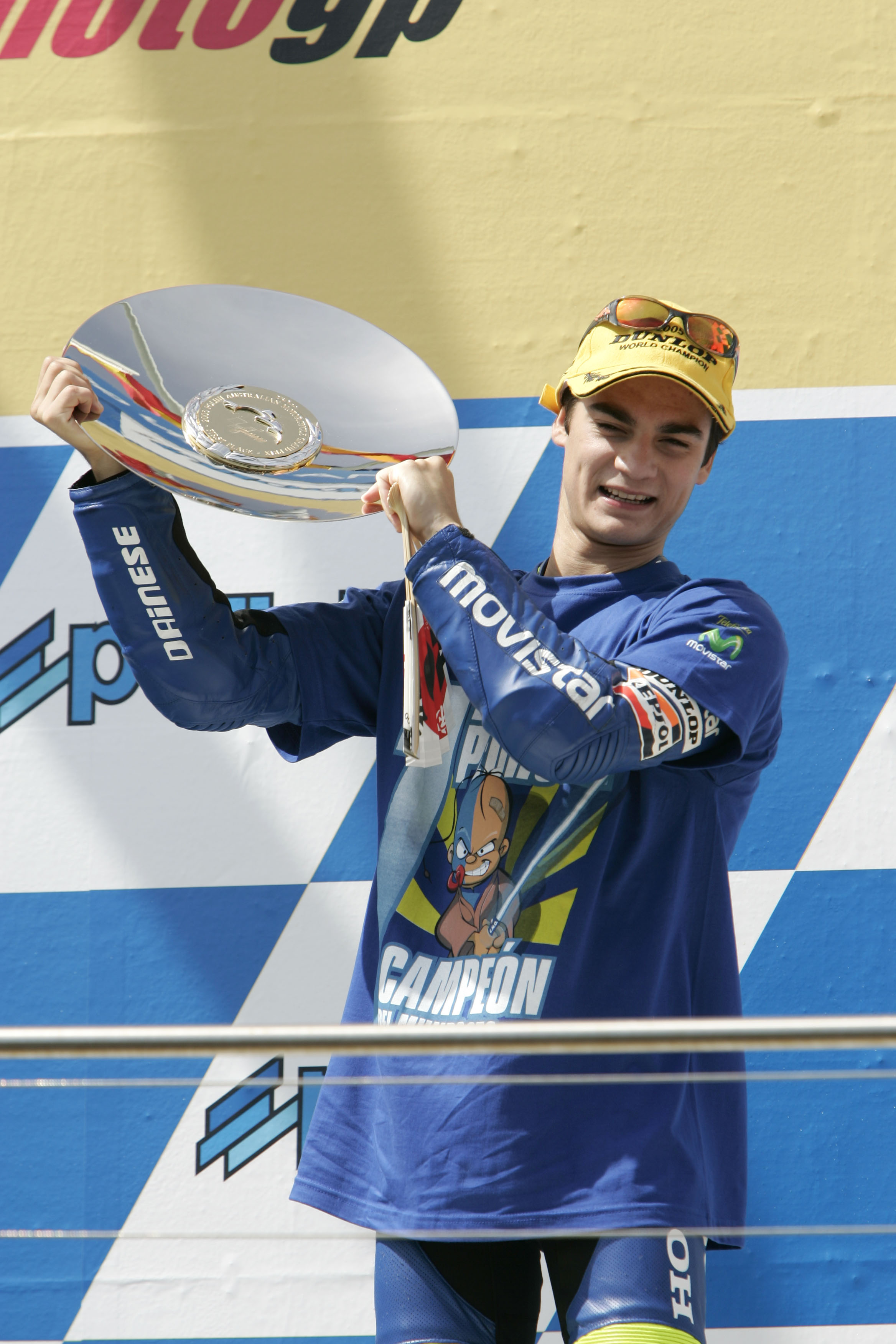 Dani Pedrosa, celebrating on the podium after winning the 2005 Australian Grand Prix.